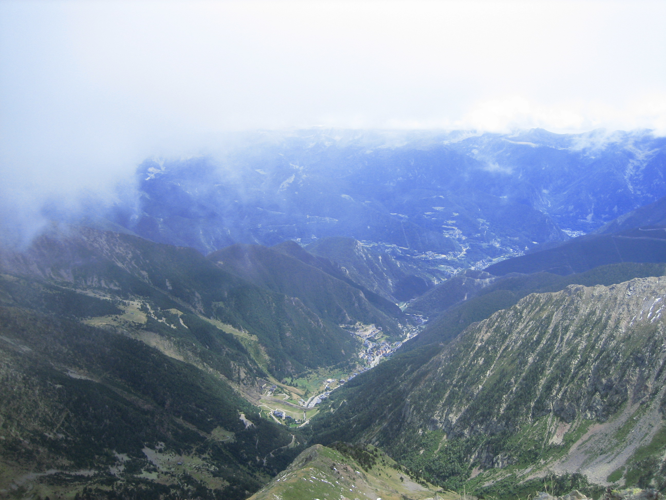 View from Coma Pedrosa summit, Arinsal, Andorra